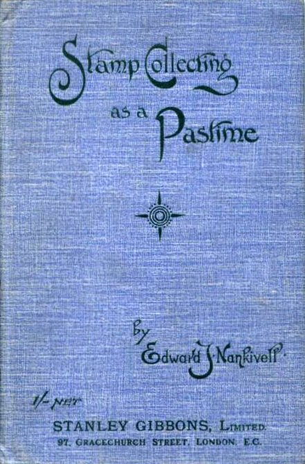 Nankivell, Edward J. - Stamp Collecting as a Pastime Stanley Gibbons, London, 1902.